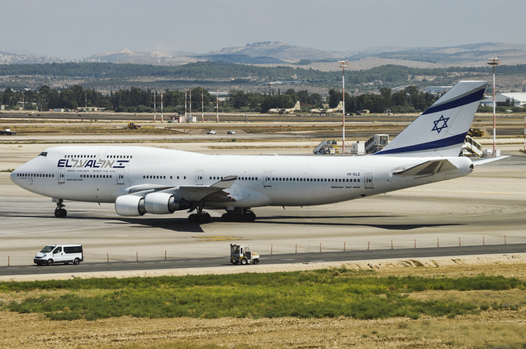 An El Al 747 arriving at it's gate after a long haul flight.